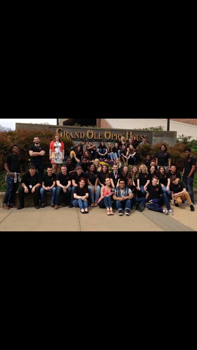 Good Times during the National Show Choir Competition in Nashville TN in April of 2014